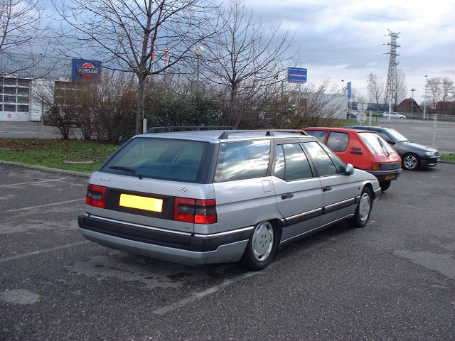 Citroen XM Estate (station wagon)